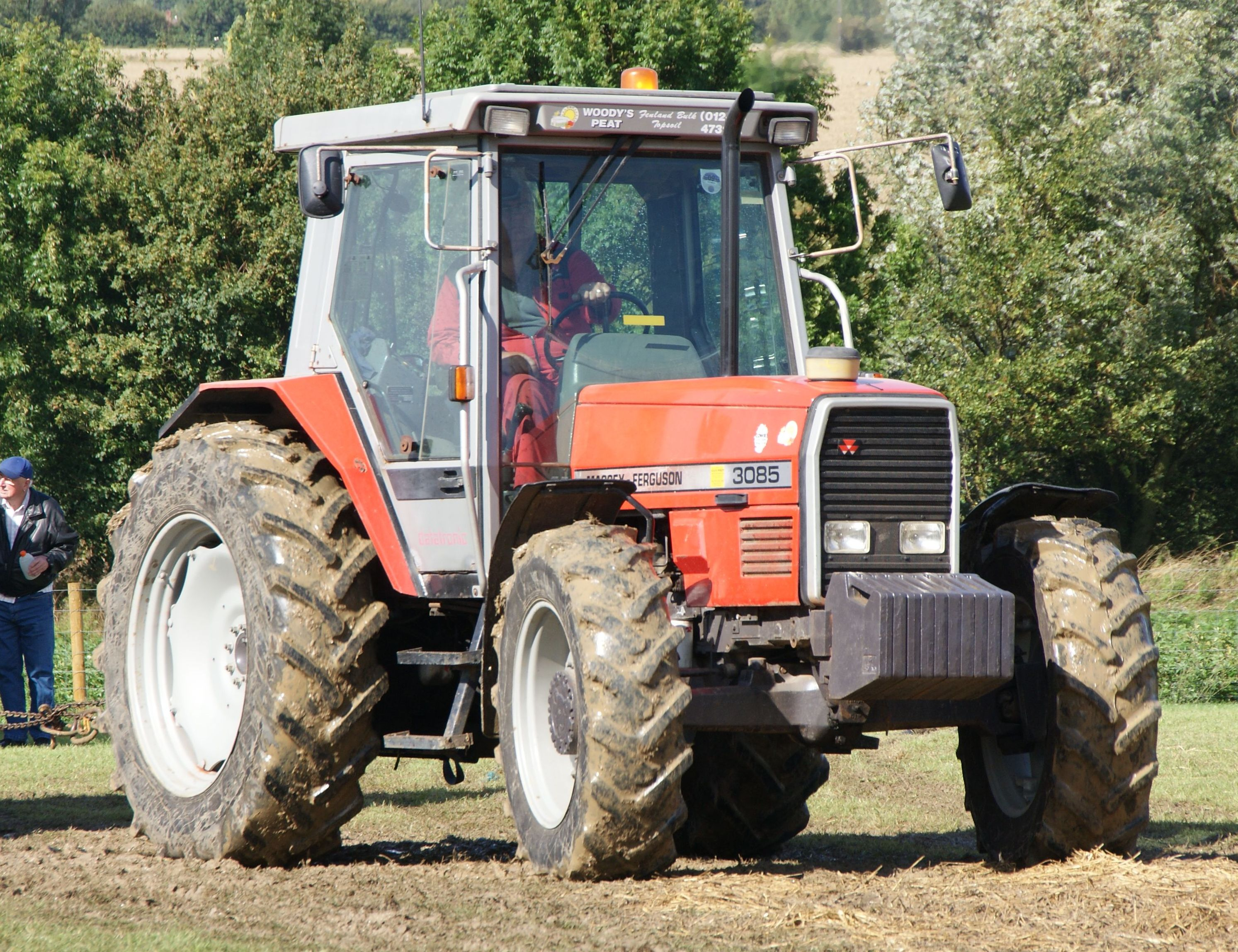 A Massey Ferguson MF 3085 tractor pulling an old bus/coach, Lodge's Coaches 90th Anniversary, High Easter, England